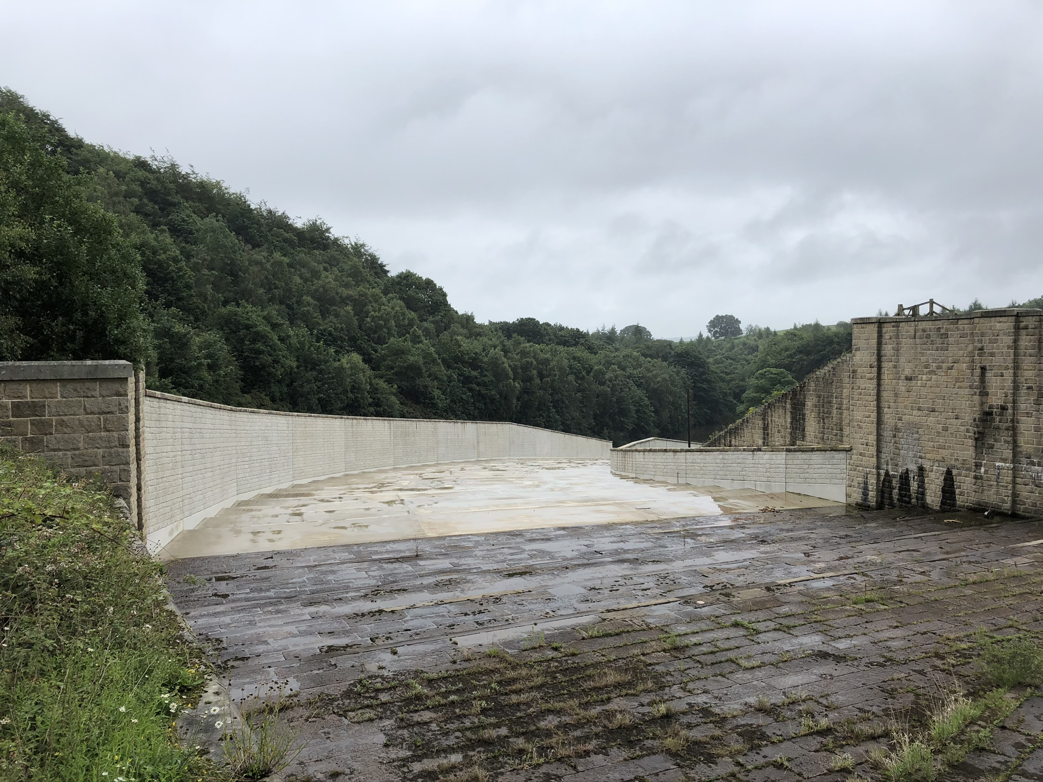 In 2019/20, the spillway at Lindley Wood Reservoir was relined and the side walls were raised to safely protect the embankment dam from erosion during high flow. Here the dry spillway is pictured in July 2020.